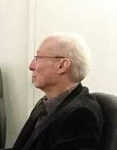 Yves Daoust photographed in Montreal, Quebec, Canada at the Église du Gesù.